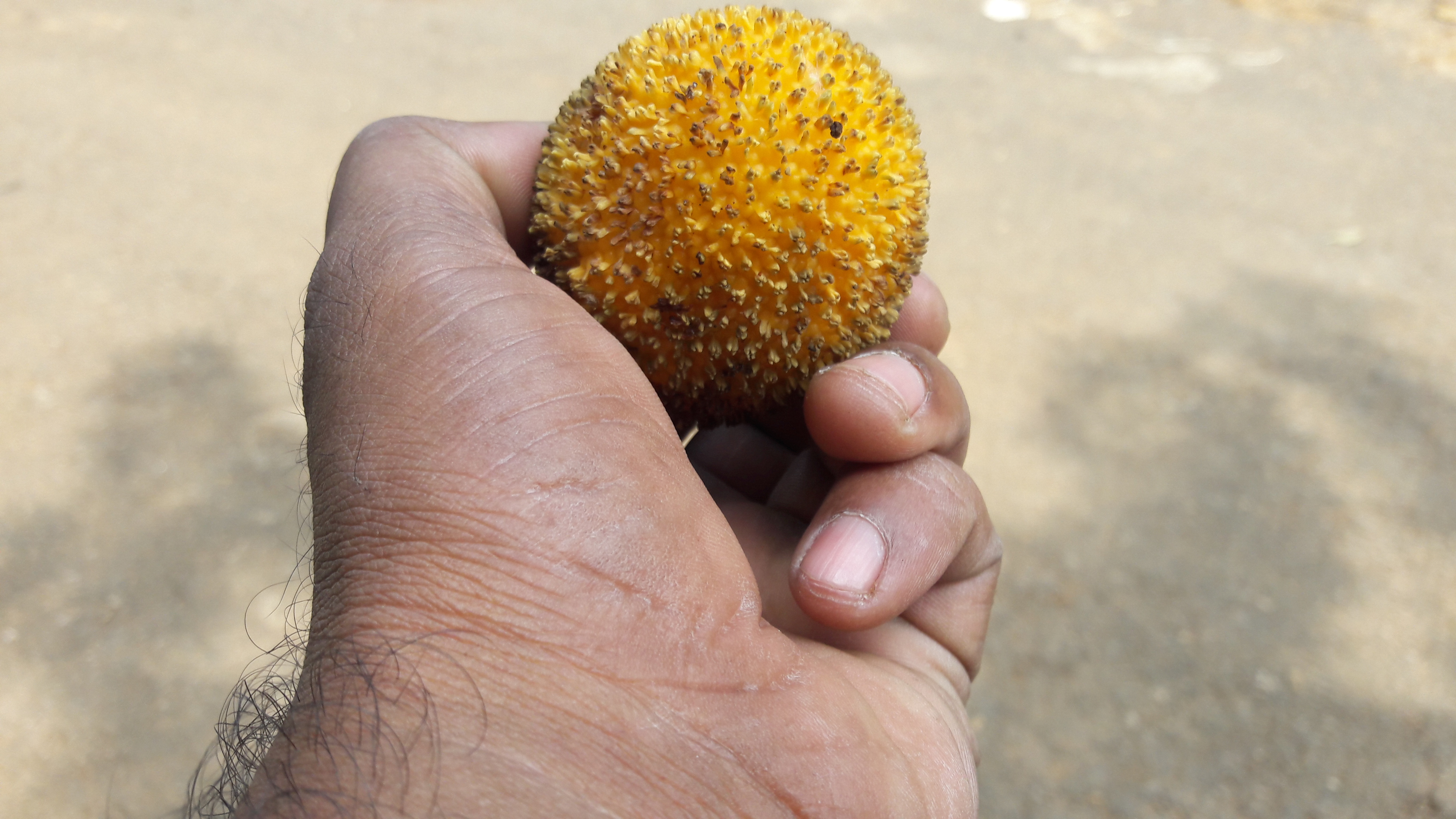 Neolamarckia cadamba